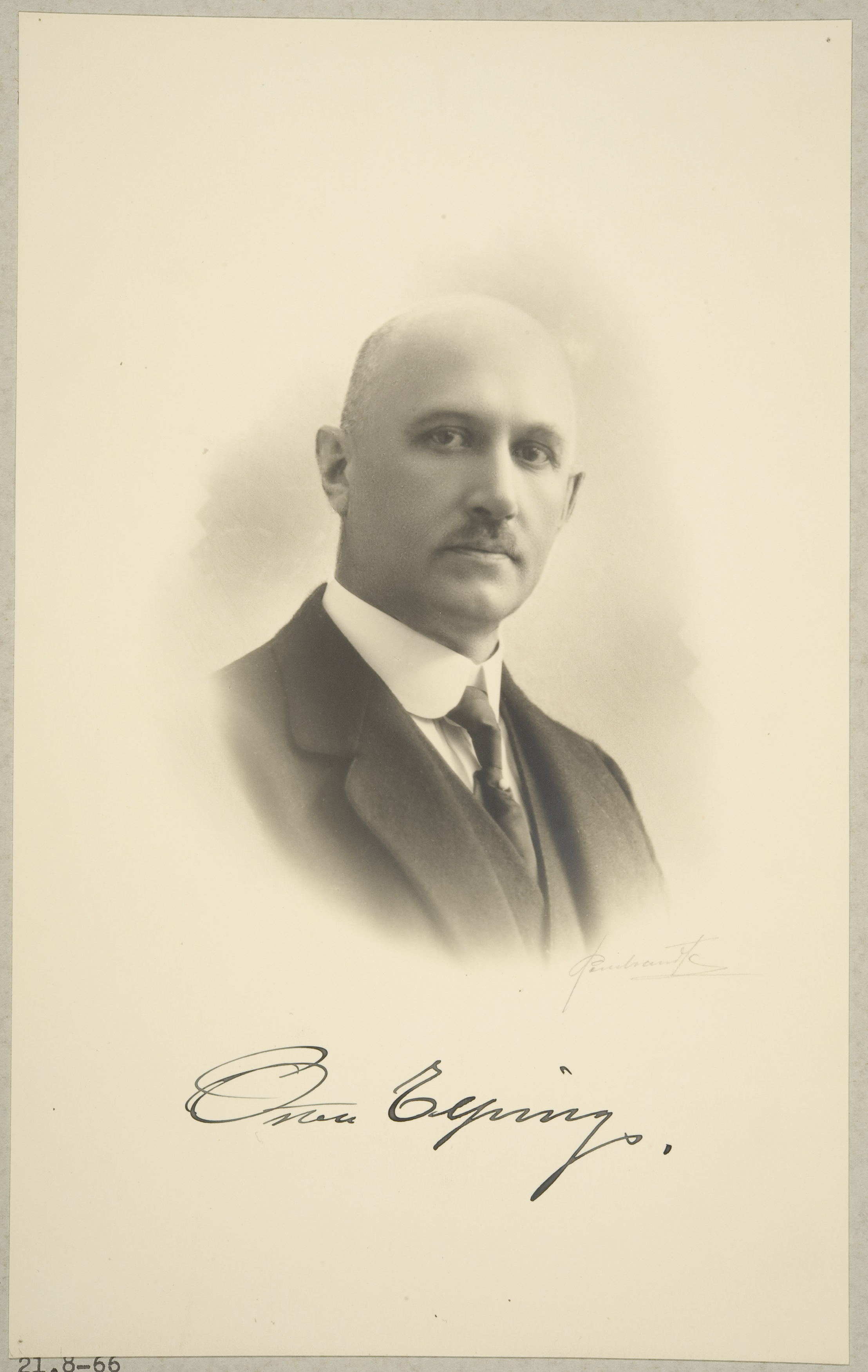 Photograph of the Finnish politician Östen Elfving (1874–1936).